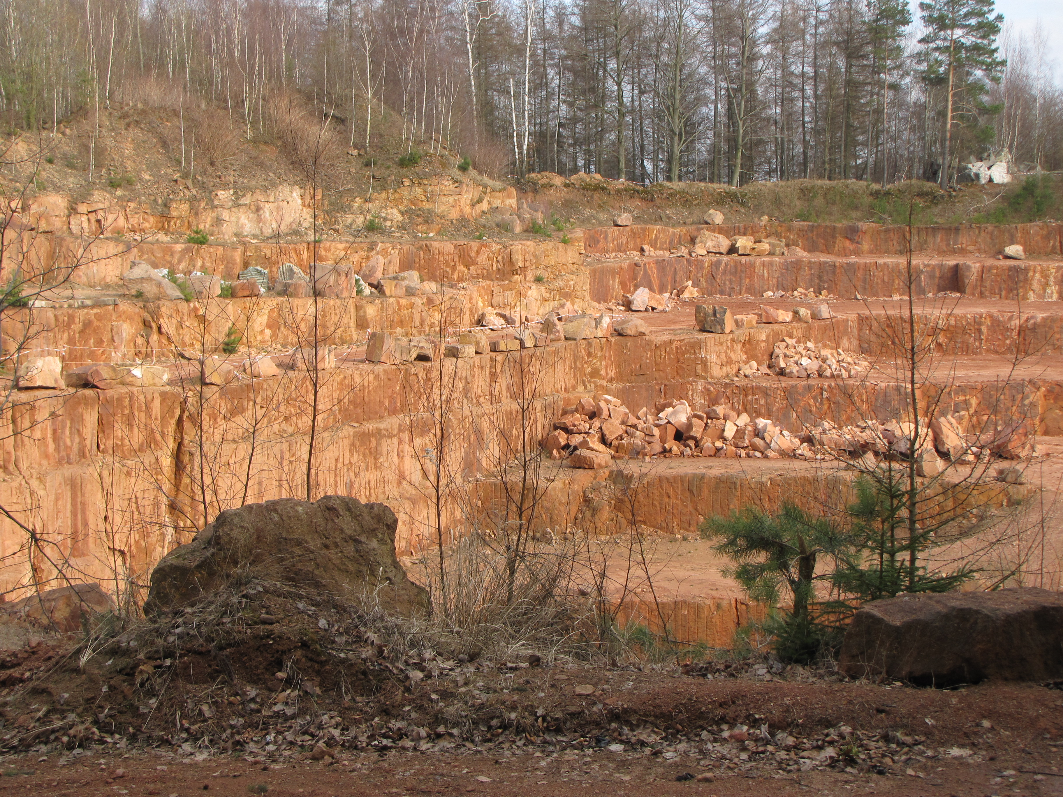 Ignimbrit-Fließeinheiten des "Rochlitzer Porphyrs" im Steinbruch auf der Pappelhöhe